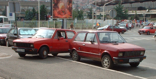 Two Yugo in their native country (picture taken in Priština, Kosovo).